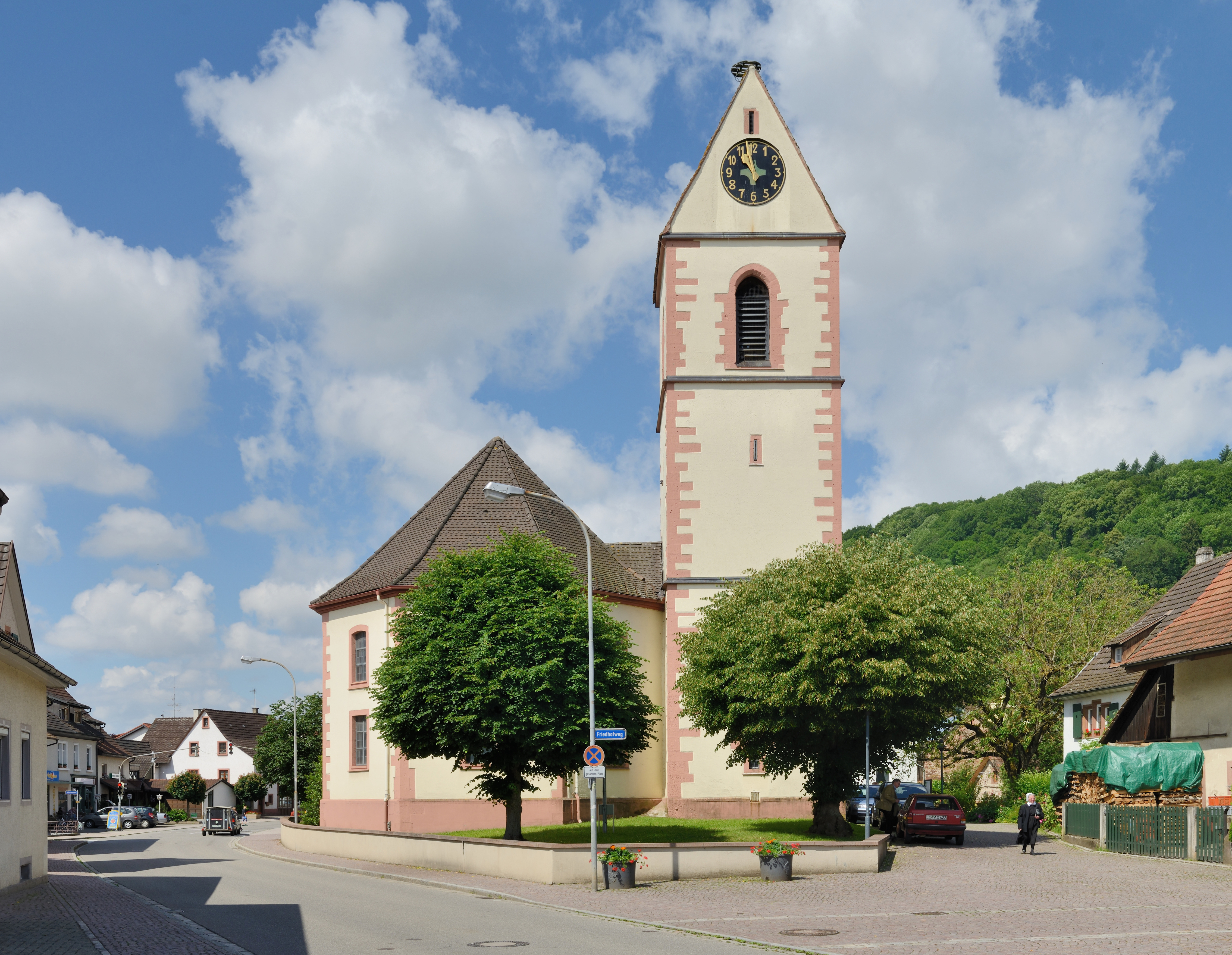 Hauingen: Saint Nicolaus Church